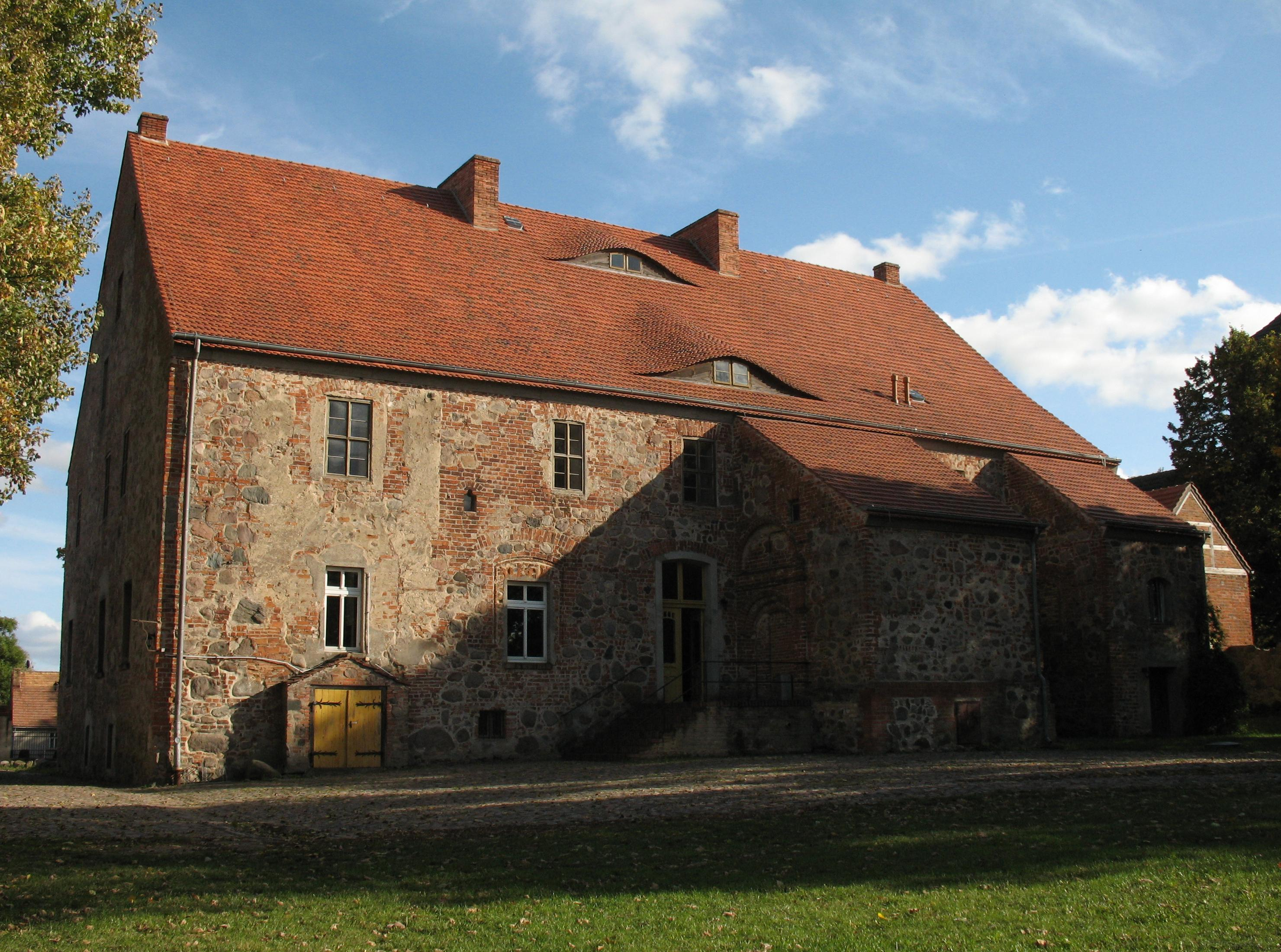 Fortified house in Zehdenick-Badingen in Brandenburg, Germany